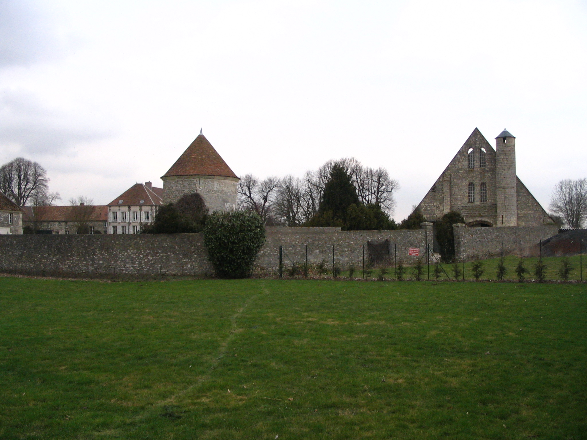 The Middle Ages Grange de Vaulerent, in Villeron, Val-d'Oise, France.